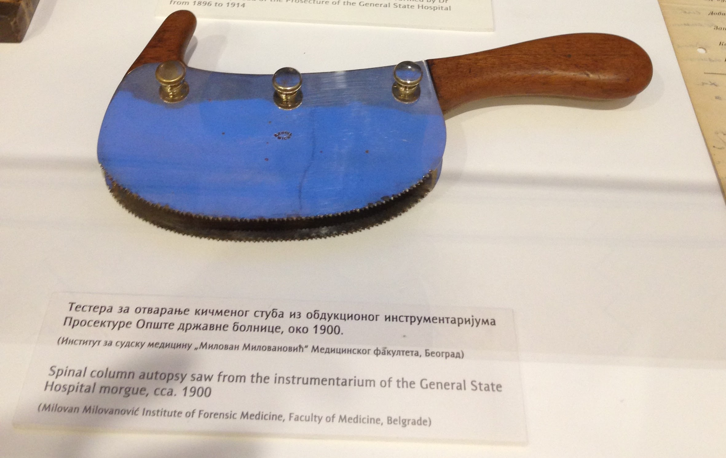 Spinal column autopsy saw from the instrumentarium of the Genaral Hospital morgue, Serbia (cca. 1900).